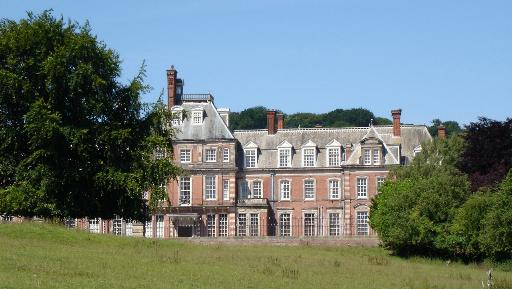 Kinmel Hall. Kinmel Hall in Kinmel Park, St. Geroge